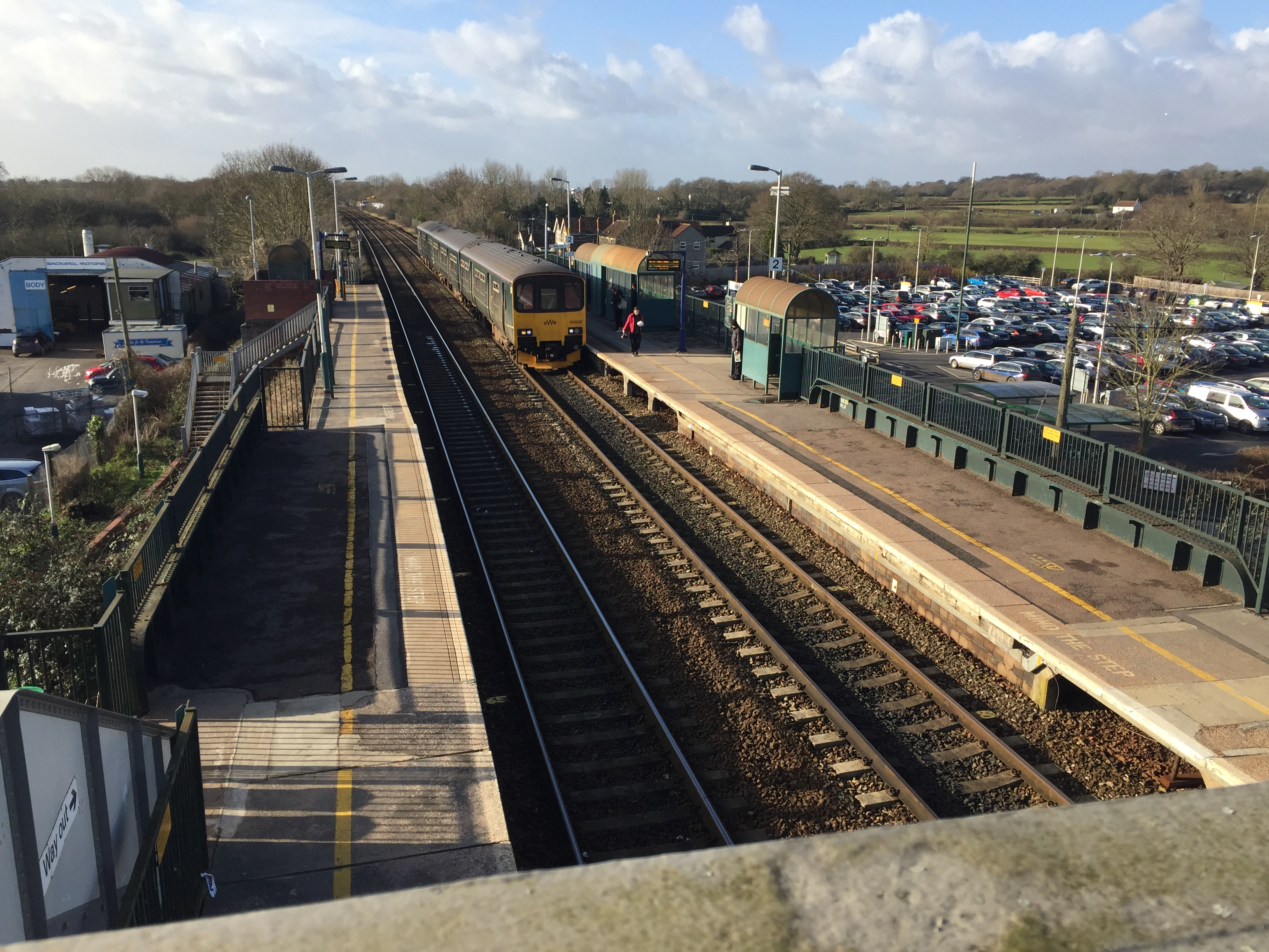 Nailsea and Backwell station and viewed from the bridge. A train pulls in to Platform 1, destined for Bristol Parkway.